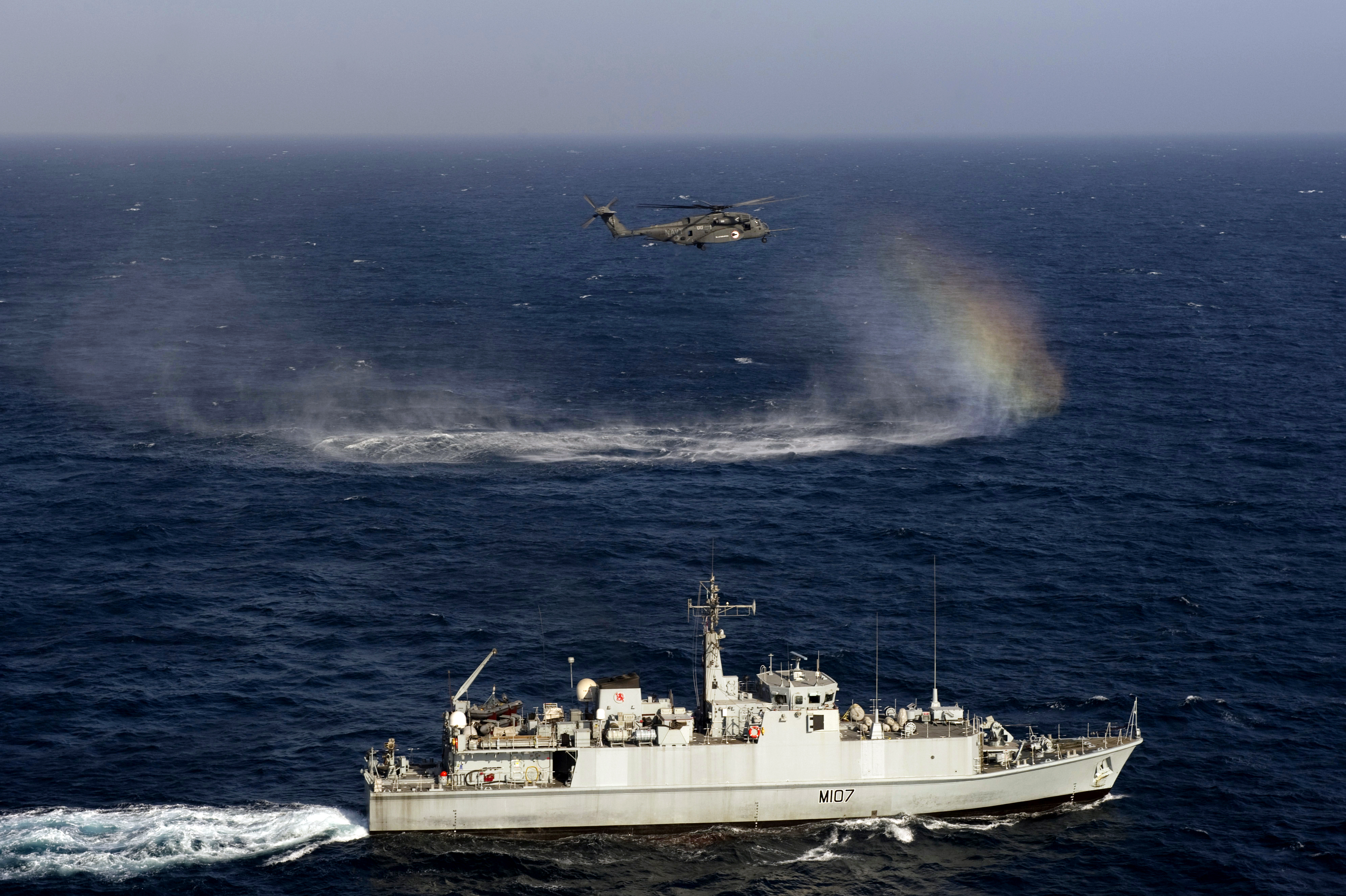 ARABIAN GULF (Aug. 24, 2011) An SH-60 Sea Hawk helicopter assigned to Helicopter Mine Countermeasures Squadron (HM) 15 flies alongside the Royal Navy mine countermeasures ship HMS Pembroke (M107) during a bilateral training exercise to improve mine countermeasure readiness. The training is intended to refine coalition warfare capabilities while strengthening partner relationships and enhancing regional security in the U.S. 5th Fleet area of responsibility. (U.S. Navy photo by Mass Communication Specialist 1st Class Lynn Friant/Released)